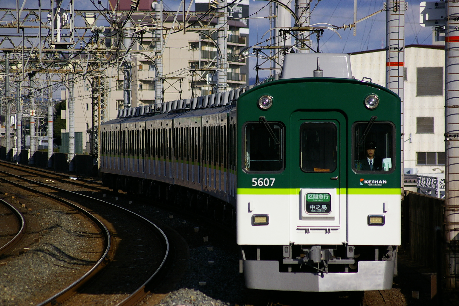 Keihan 5000 series EMU set 5557 approaching Owada Station